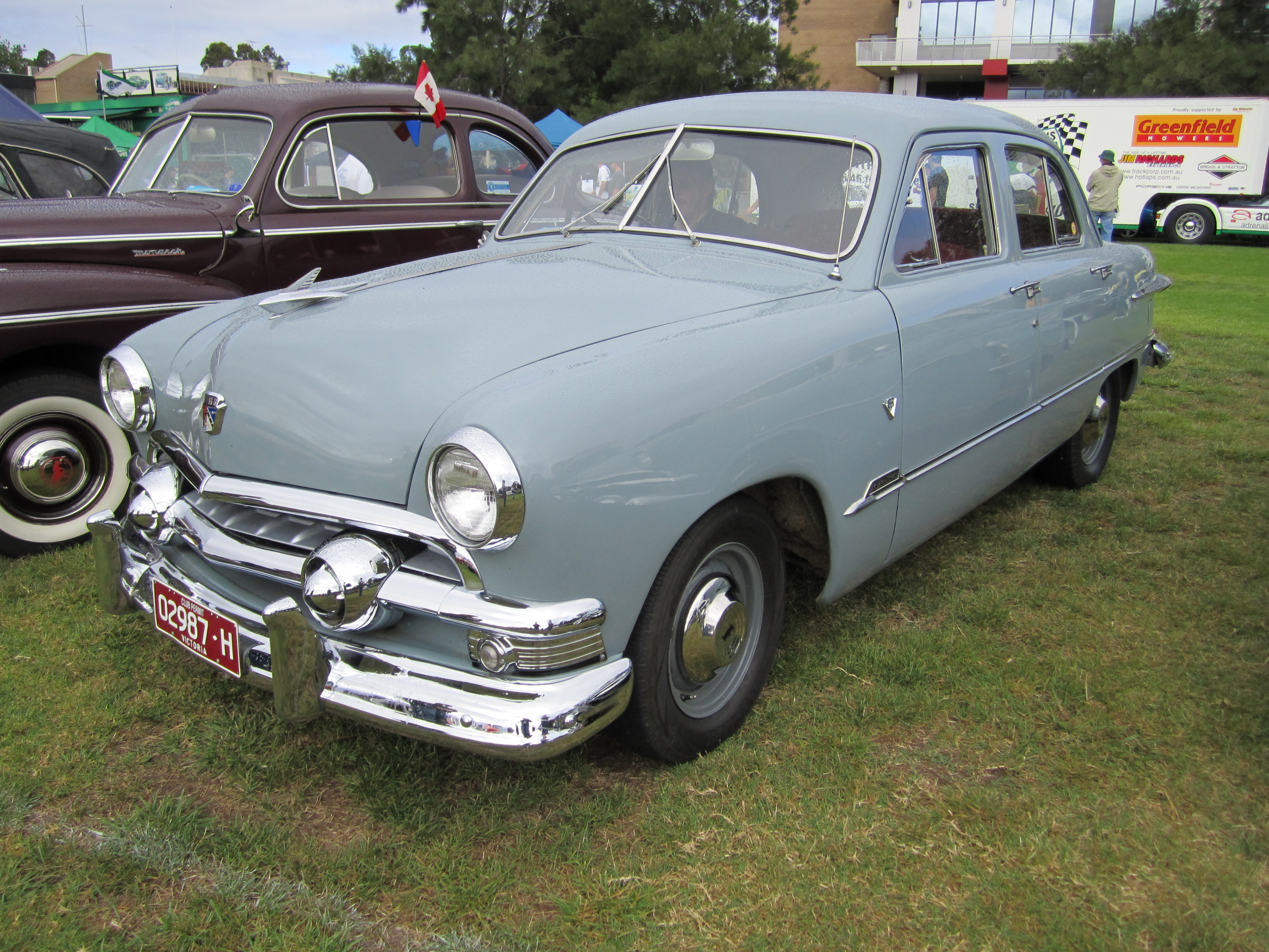 1951 got twin spinners in grille. Available in Deluxe, Custom Deluxe, Crestliner & for 1951 top of the line Victoria. Sedan or 2 door Coupe. Engine; 226 6 cyl or 239 Flathead V8